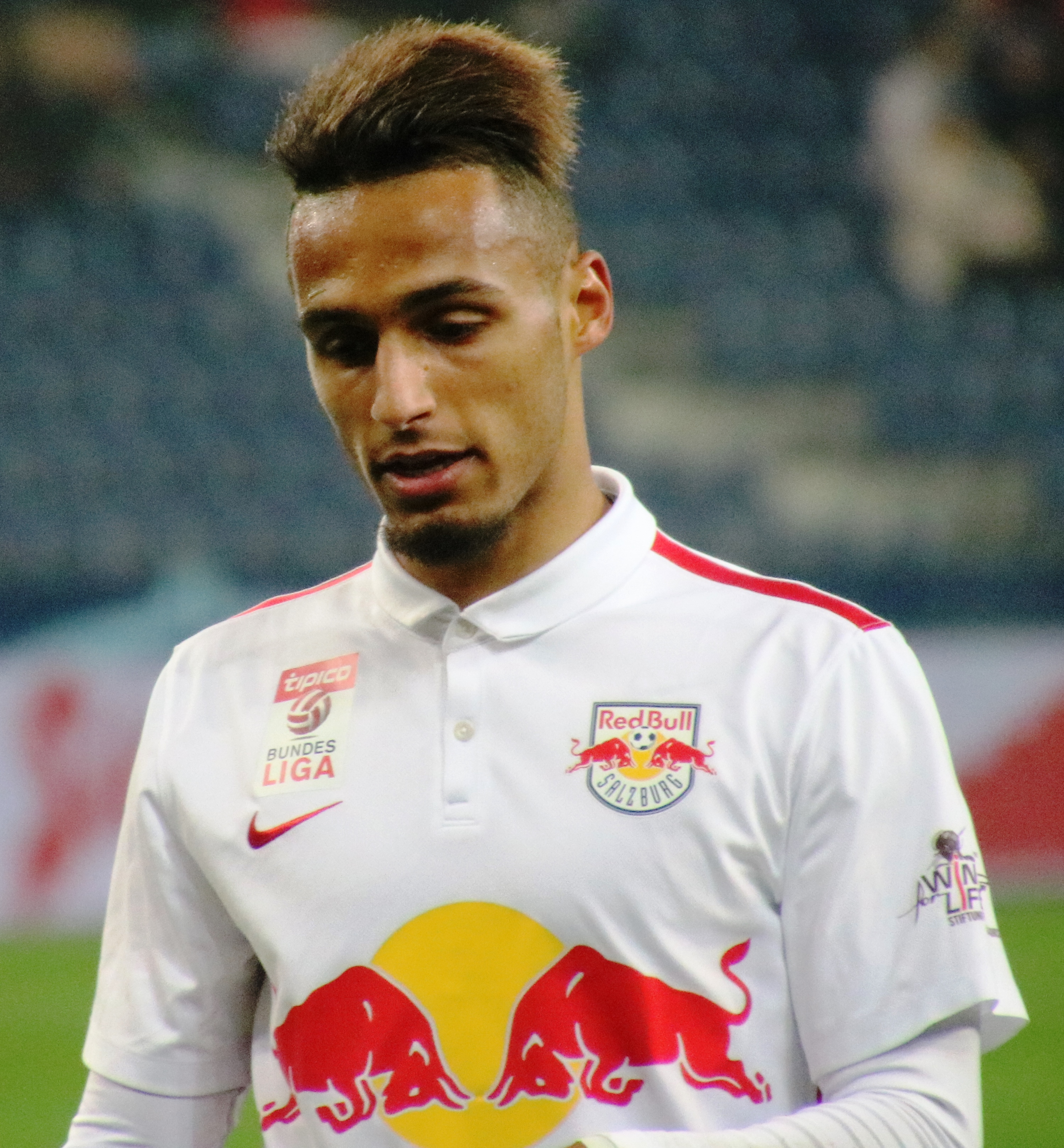 Austrian Cup 3rd round